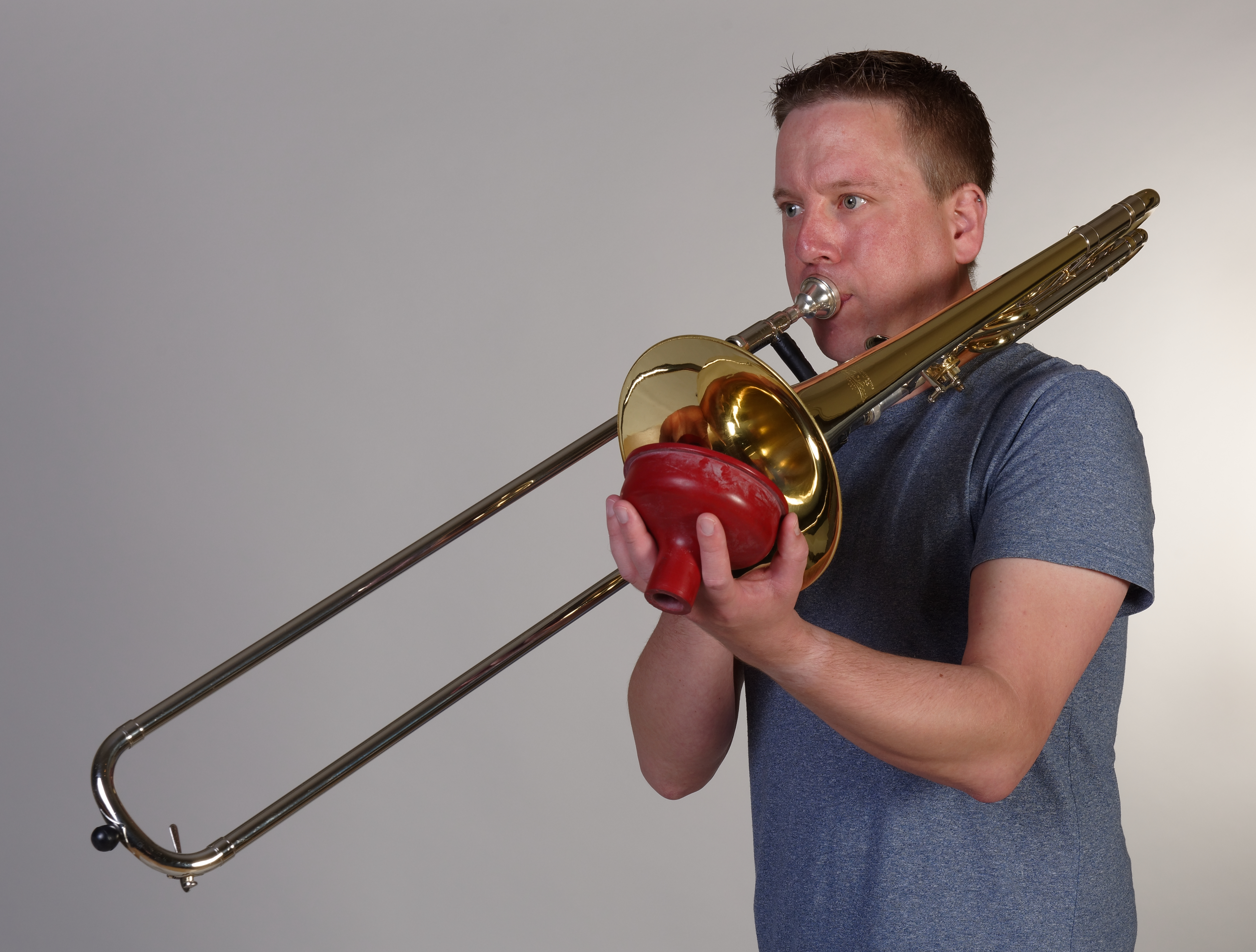 Personality rights warningAlthough this work is freely licensed or in the public domain, the person(s) shown may have rights that legally restrict certain re-uses unless those depicted consent to such uses. In these cases, a model release or other evidence of consent could protect you from infringement claims.